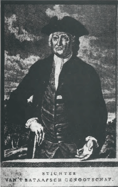 Portrait of Jacobus Cornelis Mattheus Radermacher